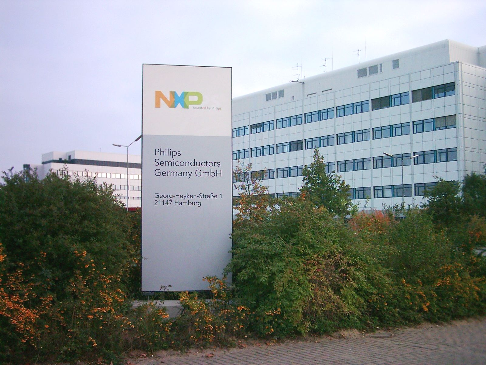 Former NXP site in Hamburg-Hausbruch, Germany. Closed in 2010